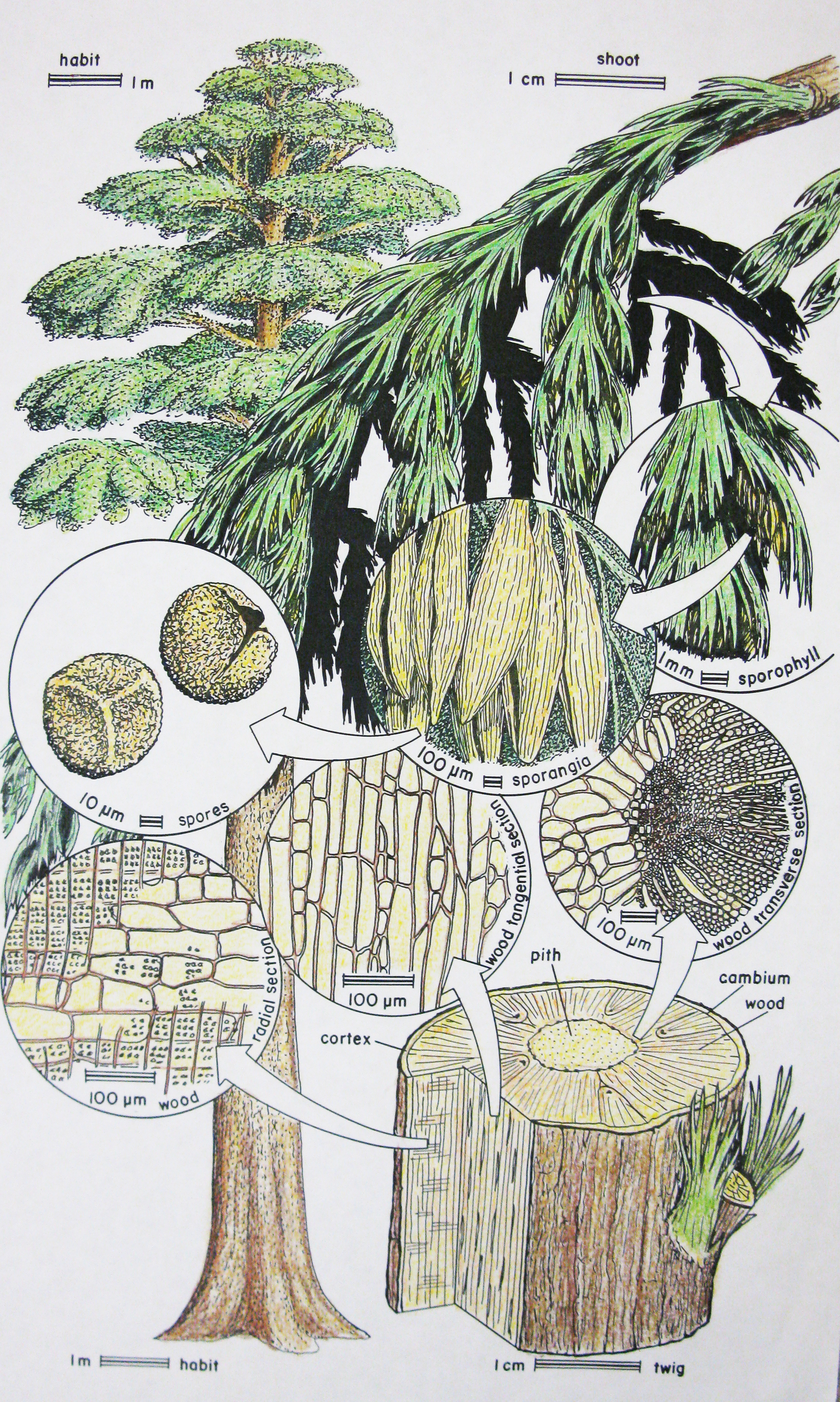 Reconstruction of the extinct progymnosperm plant Archaeopteris macilenta based on fossils from the Catskills Mountains of New York